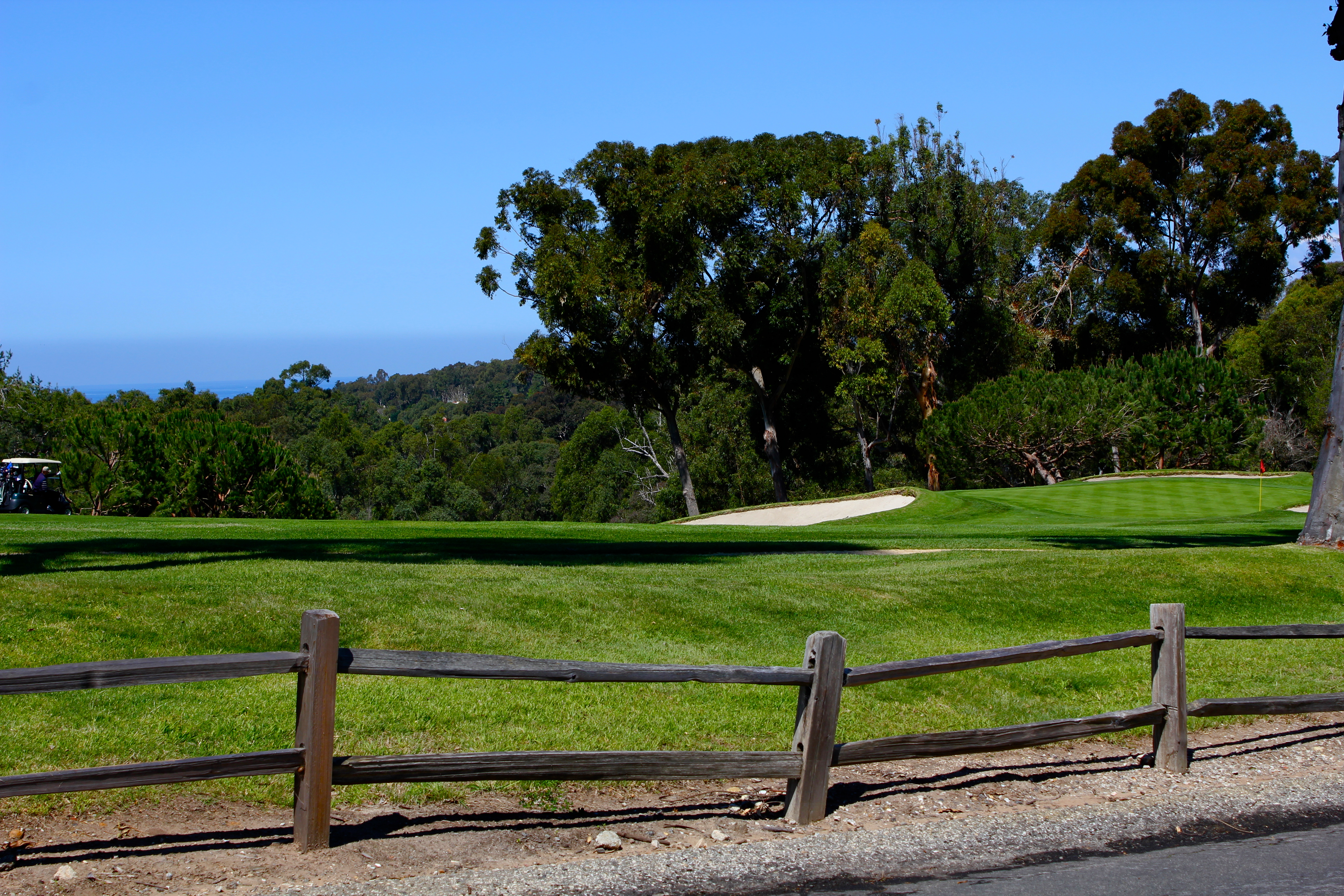 11th hole at Palos Verdes Golf Club